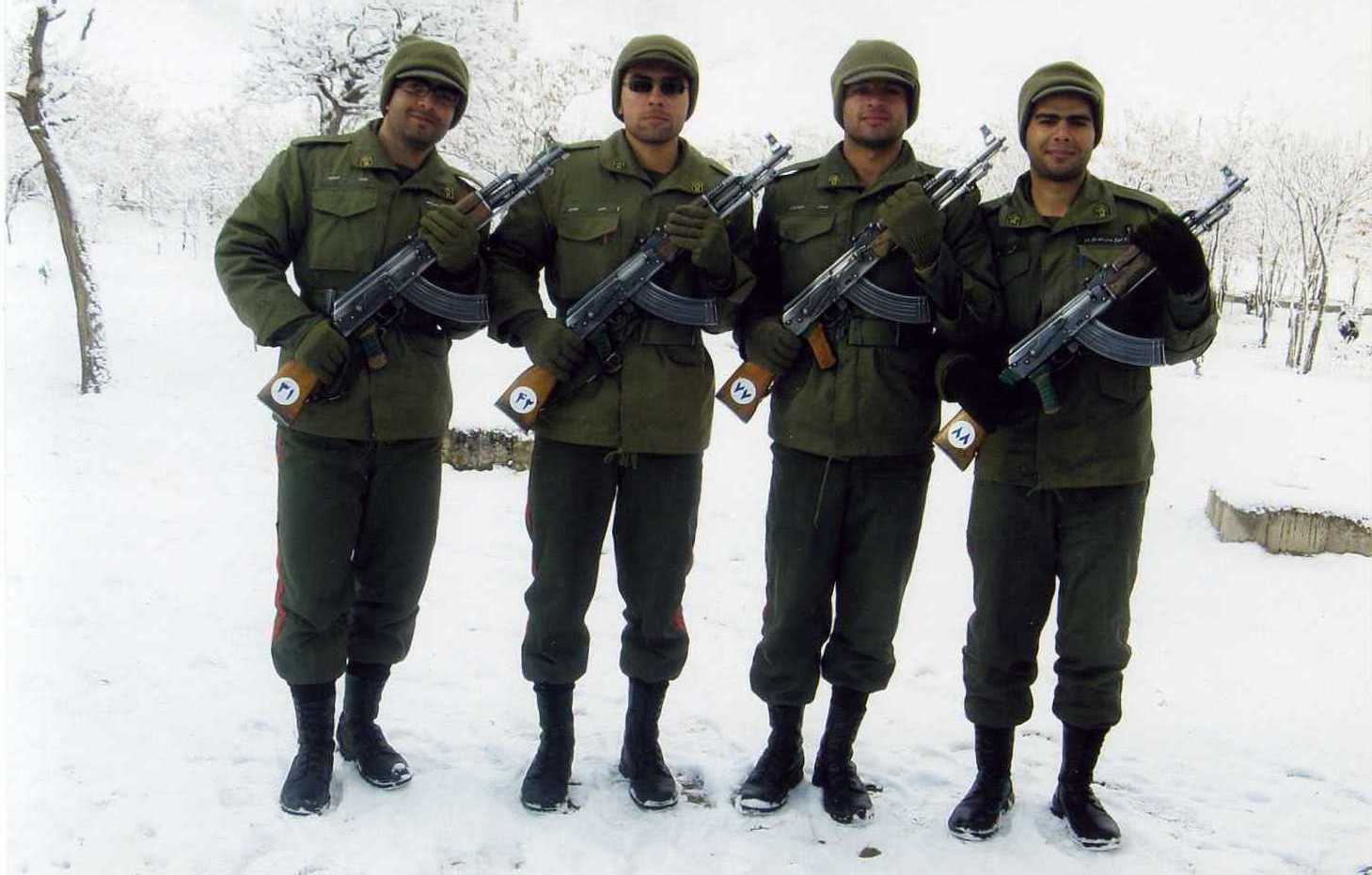 A number of Amateur young soldiers (with a bachelor's degree) in training term(Bimestrial) in the Malik al-Ashtar barracks belong to Law enforcement in Iran.